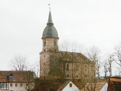 St George's Lutheran Church, Georgensgmünd, facing south-west.